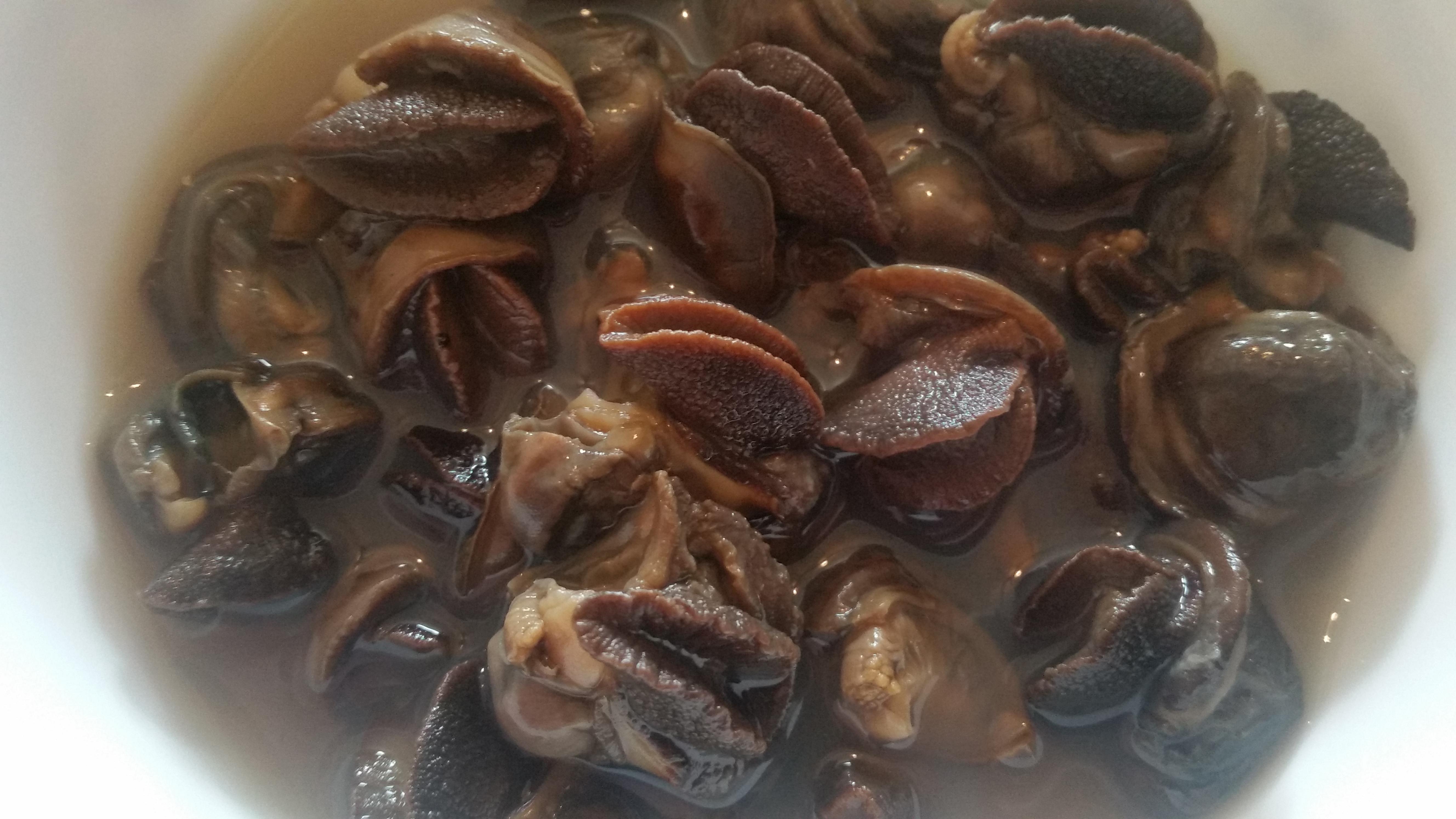 Cooked Snails from a can.